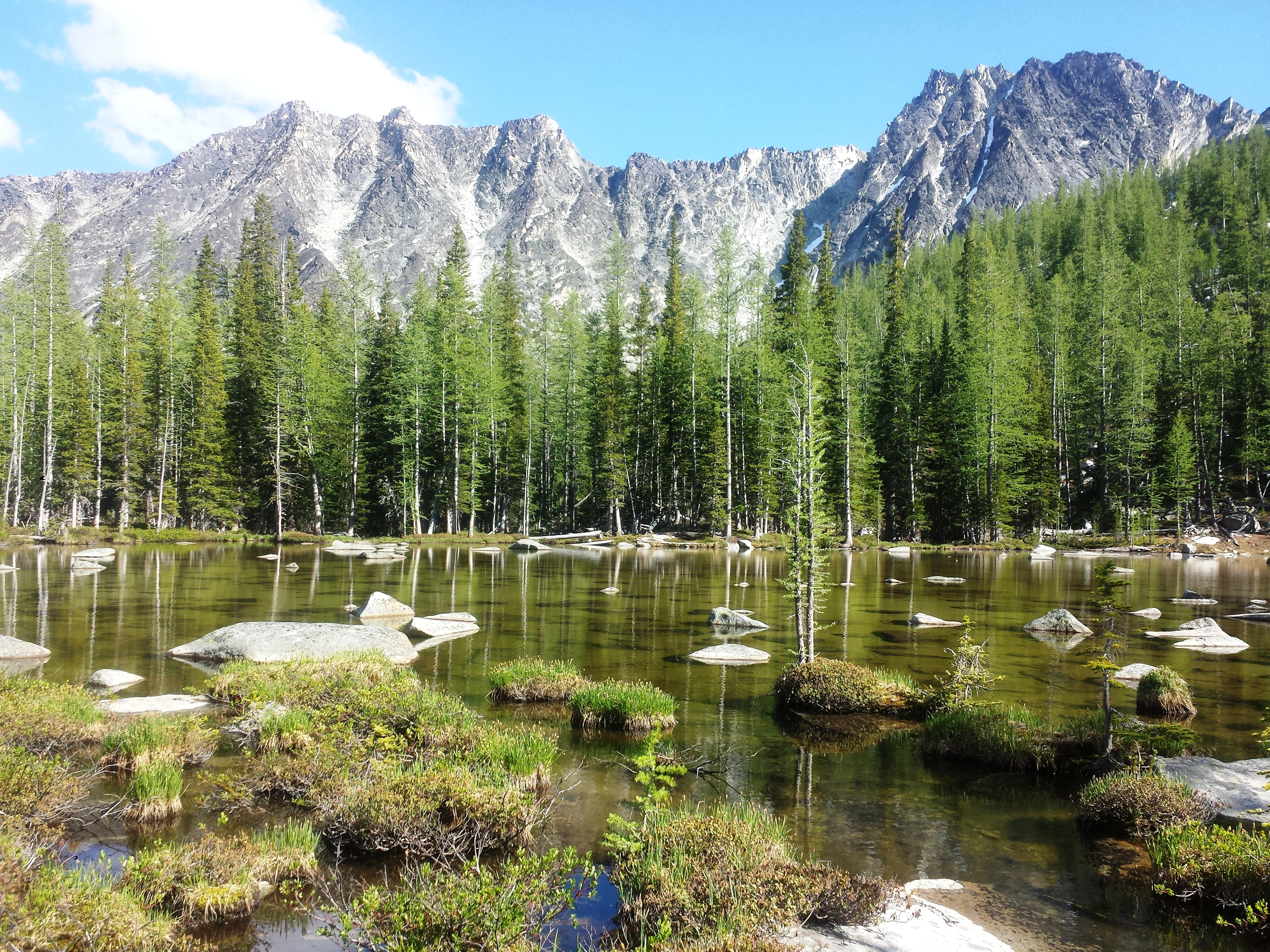 A forest of subalpine larch (Larix lyallii) surround this tarn Raven Ridge 2618 meters (8590 feet) overlooks the scene. Elevation 2250 meters (7380 feet) Large tarn near Libby Lake Trail 415 IMG_20150620_165903 Lake Chelan-Sawtooth Wilderness